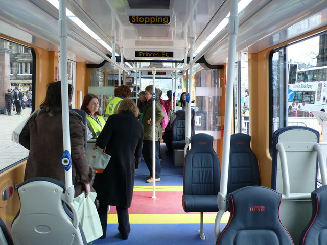 Interior of Edinburgh Tram